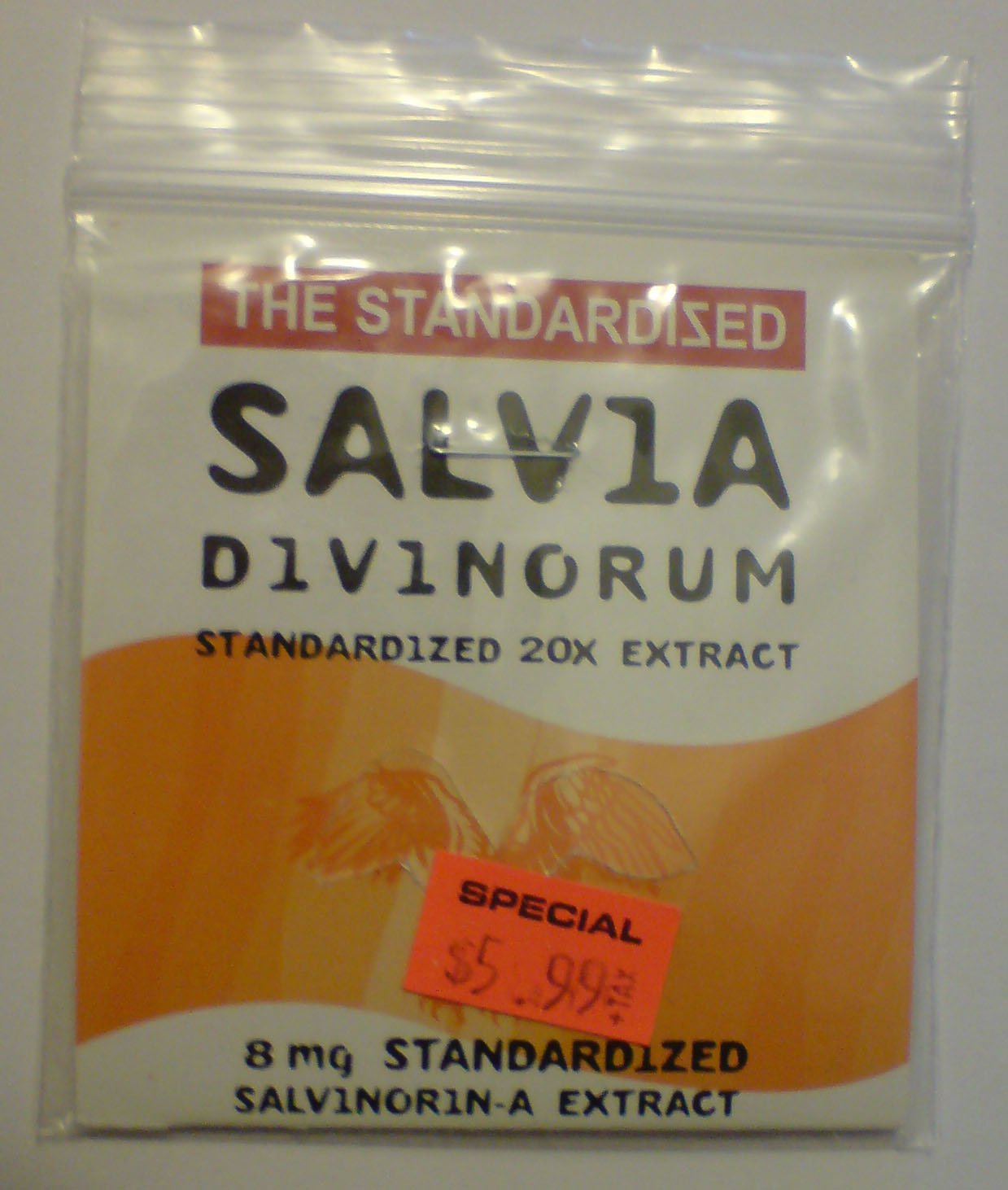 Photograph of a commercially available packet of Salvia divinorum.